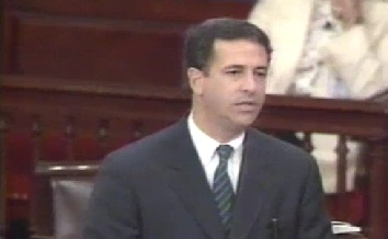 U.S. Senator Russ Feingold spoke on the Senator floor on his opposition to the USA Patriot Act.